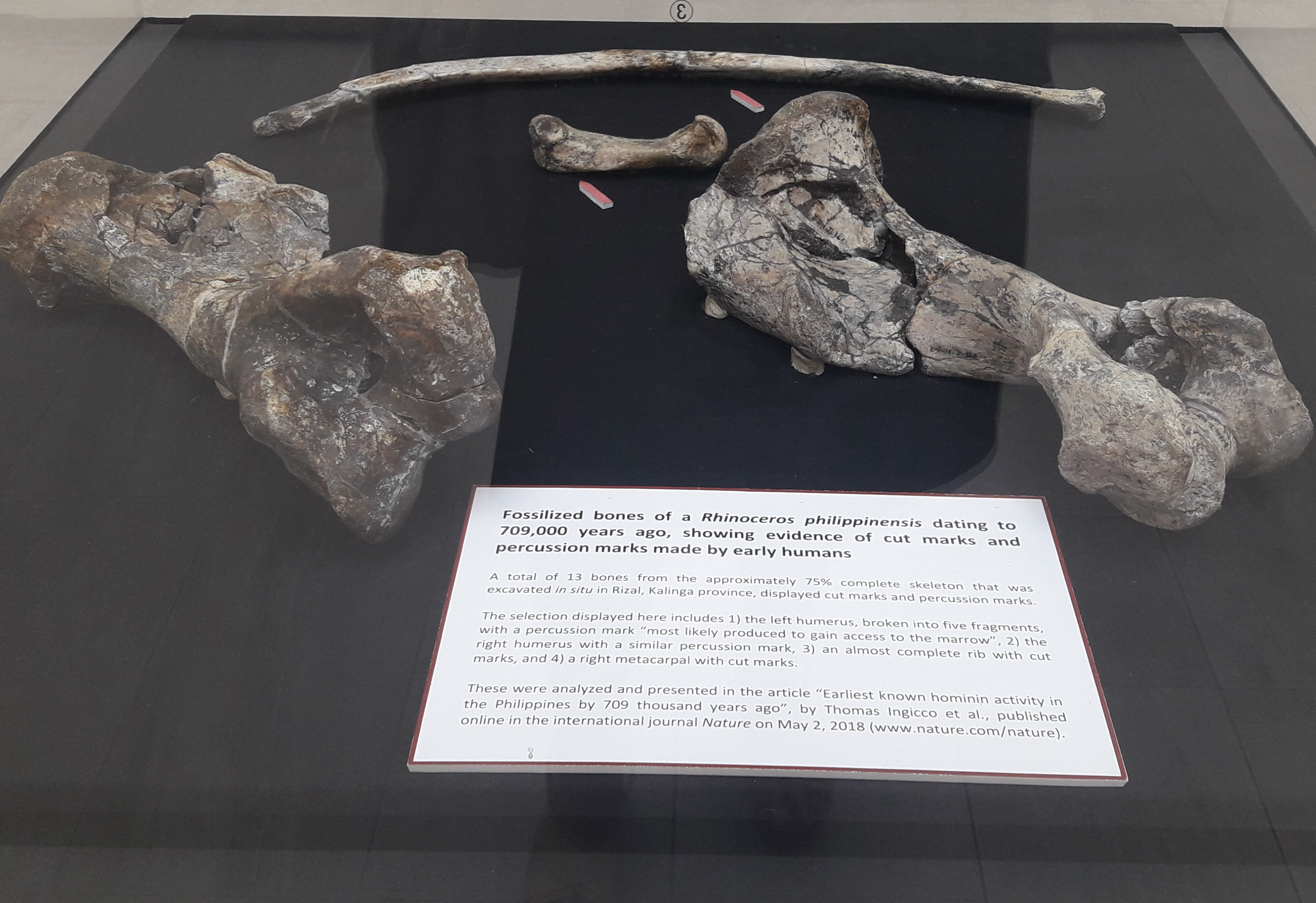 Four of the 13 Rhinoceros Philippinensis bones, with cut and butcher marks, were analyzed and presented in the article "Earliest known hominin activity in the Philippines by 709,000 years ago” by Dr. Thomas Ingicco, et al. The fossils are now on display at the National Museum of Natural History.